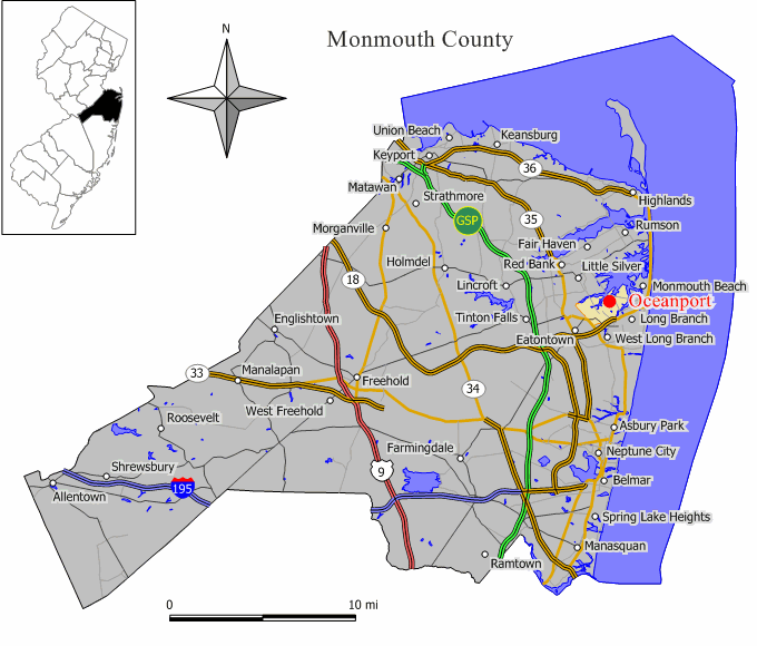 Source: Jim Irwin